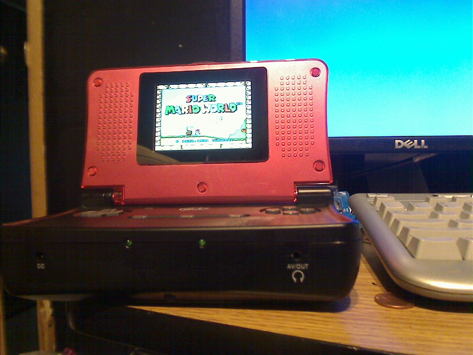 A picture of my FC 16 go